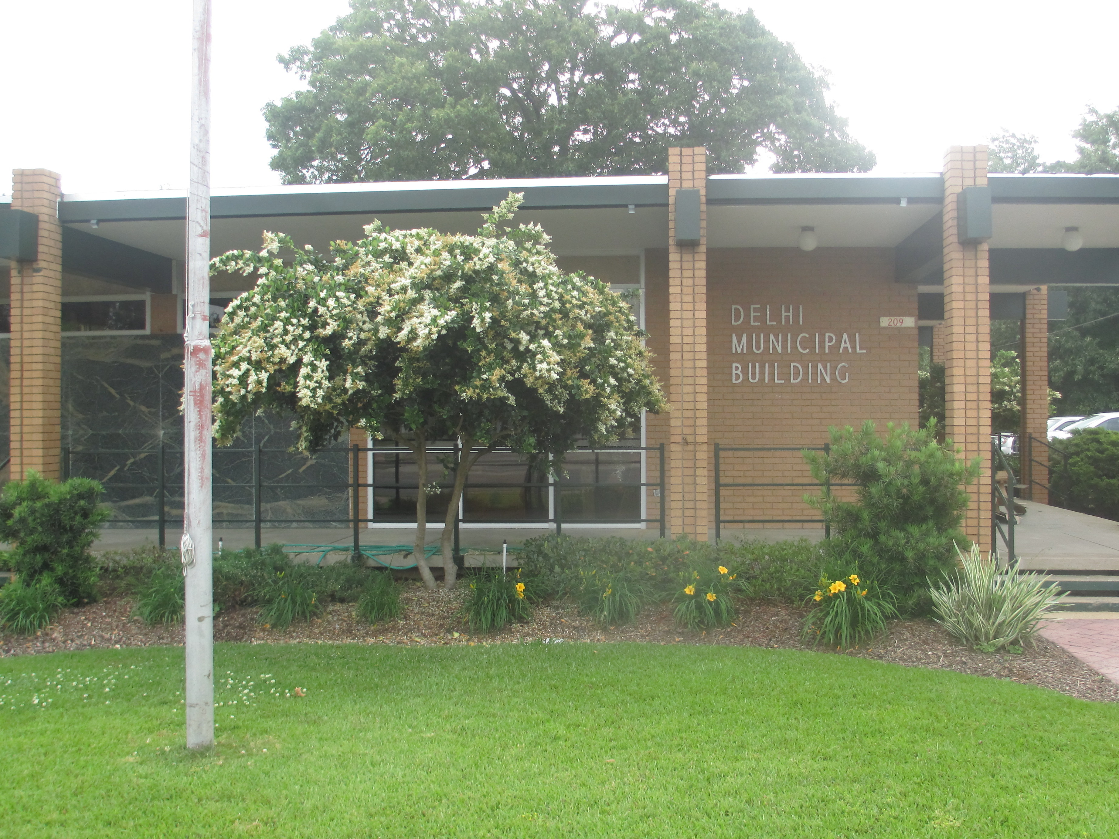 I took photo with Canon camera of Delhi Town Hall in Delhi, LA.